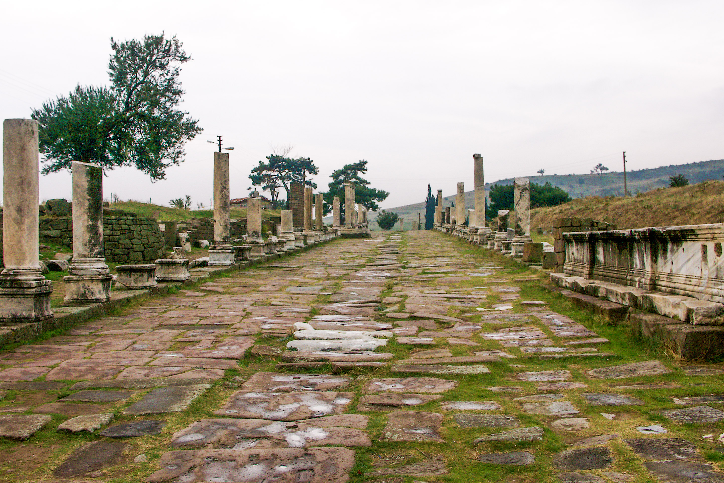 Main road at the Asklepieion, Pergamon